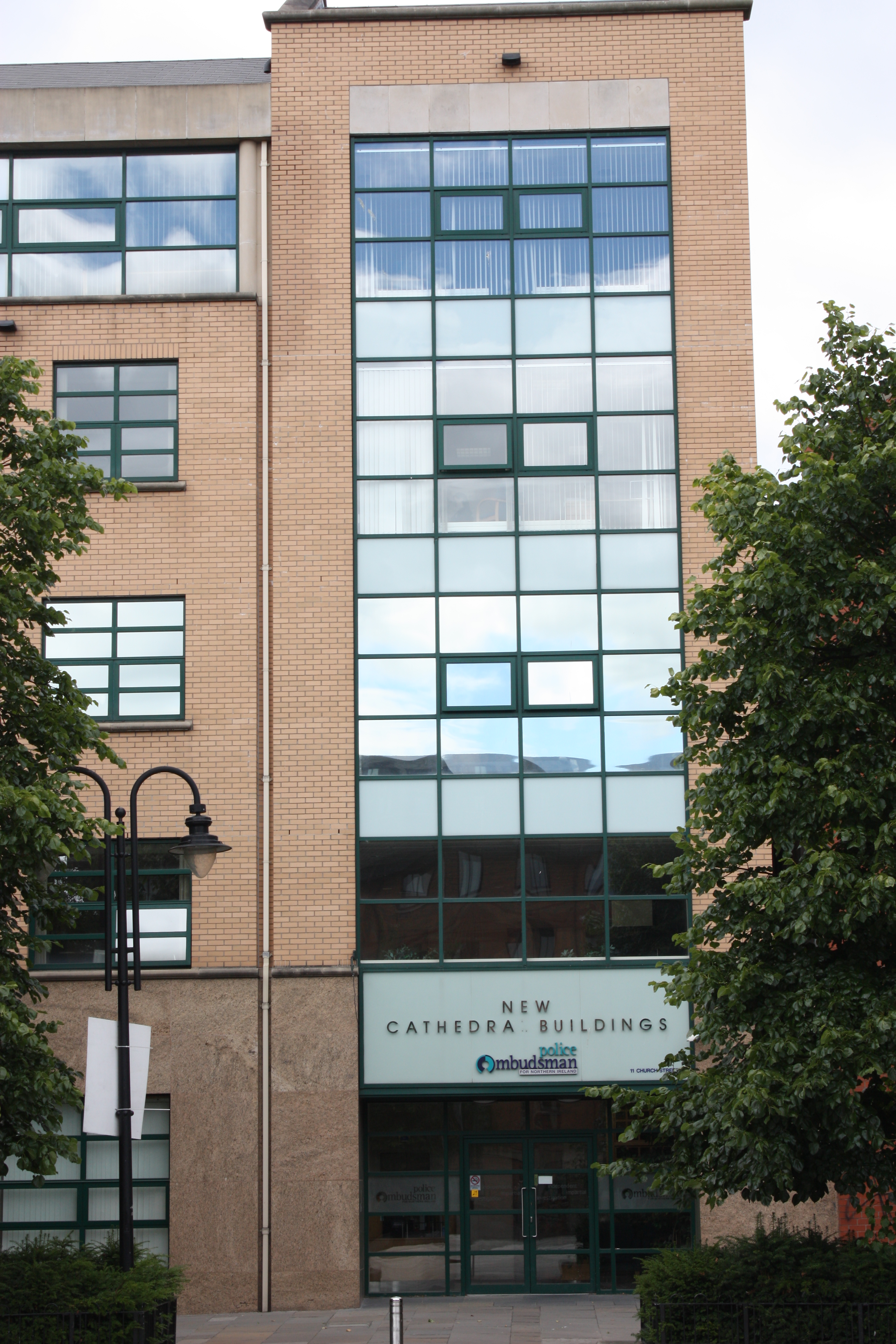 New Cathedral Buildings, Police Ombudsman's Office, Writer's Square, Donegall Street, belfast, Northern Ireland, July 2010